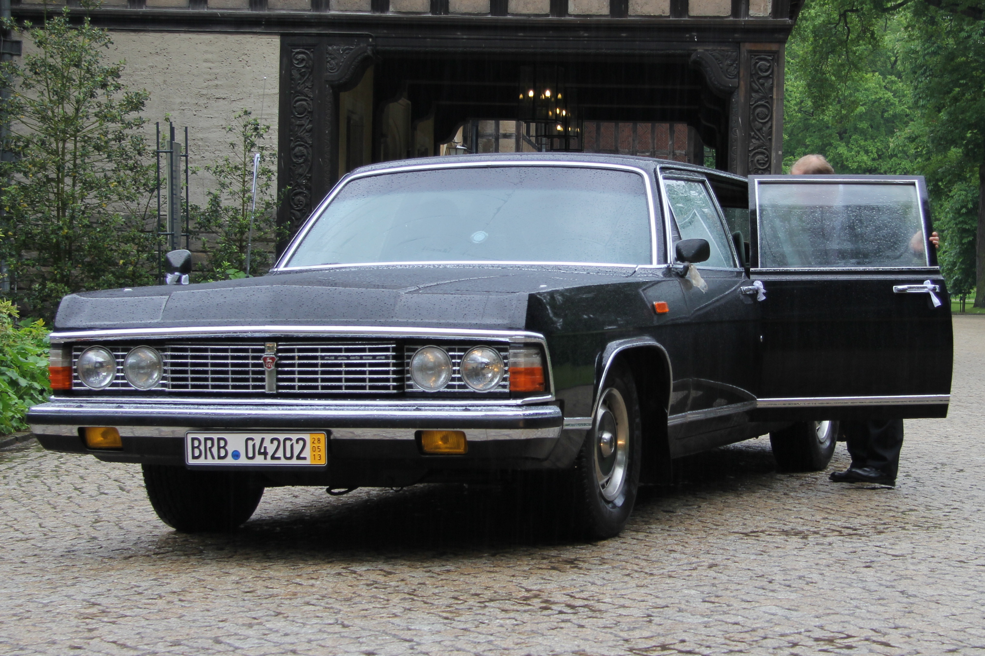 GAZ-14 Chaika in Potsdam, 2013